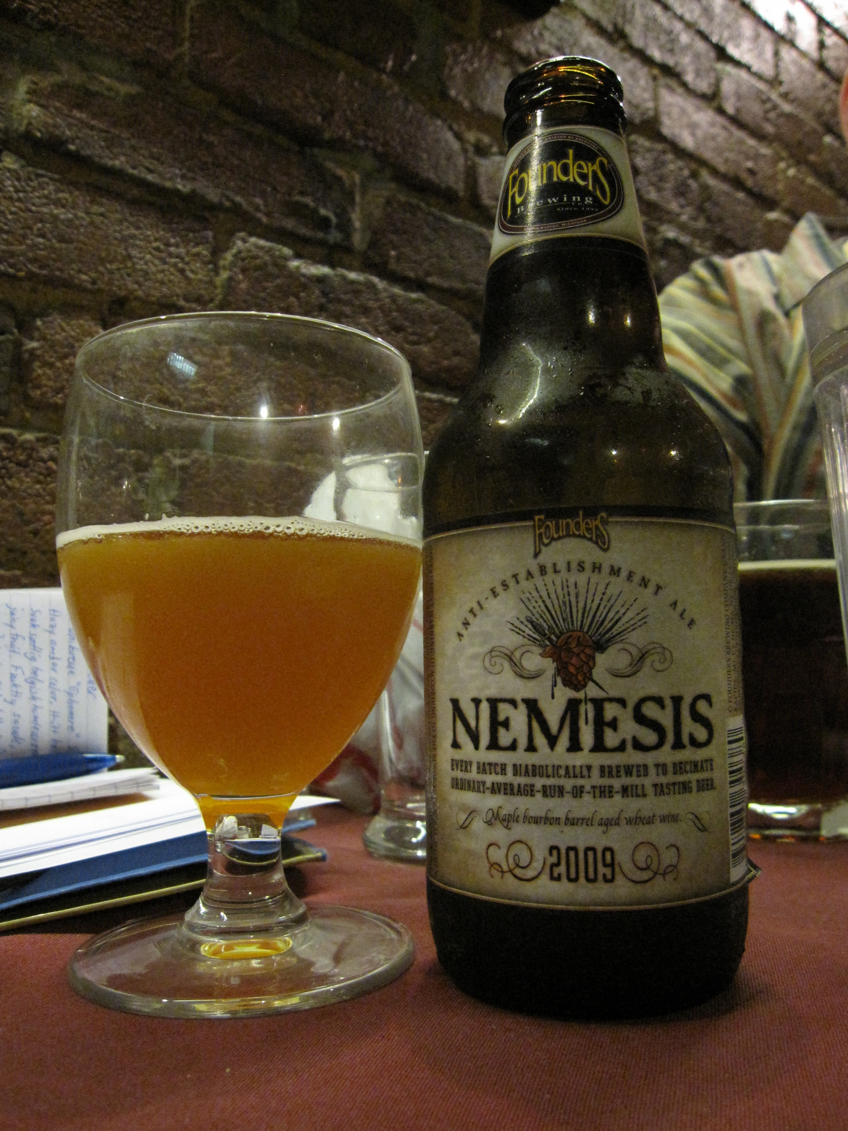 A bottle of Nemesis 2009 from Founder's Brewing Company in Grand Rapids, Michigan, at The Brickskeller in Washington DC. The Nemesis is a 12% abv barley wine. It poured a hazy orange color with a thin white head. Sweet caramel aroma with a strong bourbon note. Some citrusy wheat in the aroma too. Huge moutfeel, a bit like Great Divide Old Ruffian. Taste of maple syrup, caramel and even pears. Long sweet finish. As it warmed up the alcohol became more pronounced. All in all too sweet for my palatee, but a huge beer nevertheless. --- Commercial description: The 2009 release of Nemesis is best described as a Maple Bourbon barrel aged wheat wine holding 12% abv and 70 ibu’s. The barrels have been resting deep in the mines of Grand Rapids for nearly 9 months and have been most effective in developing a great product. The Bourbon barrels we used in this creation were once used to age Maple syrup from northern Michigan, then emptied, and procured for our use in aging this beer. The combination of American oak, Kentucky Bourbon, Michigan Maple syrup and our golden/tan wheat ale has provided a delicious malty sweet ale distinctive of strong vanilla and bourbon notes.”